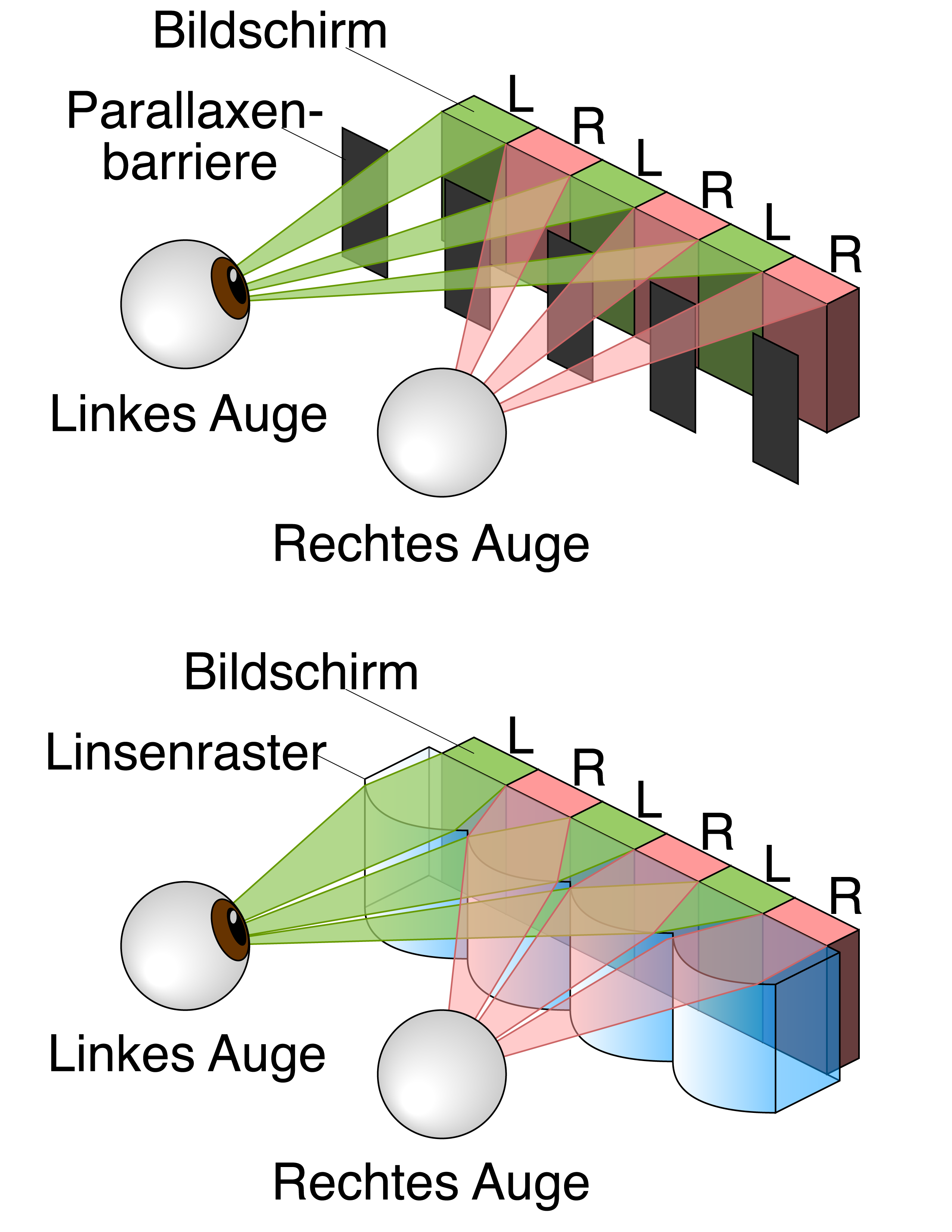 Comparison of parallax-barrier and lenticular autostereoscopic displays.